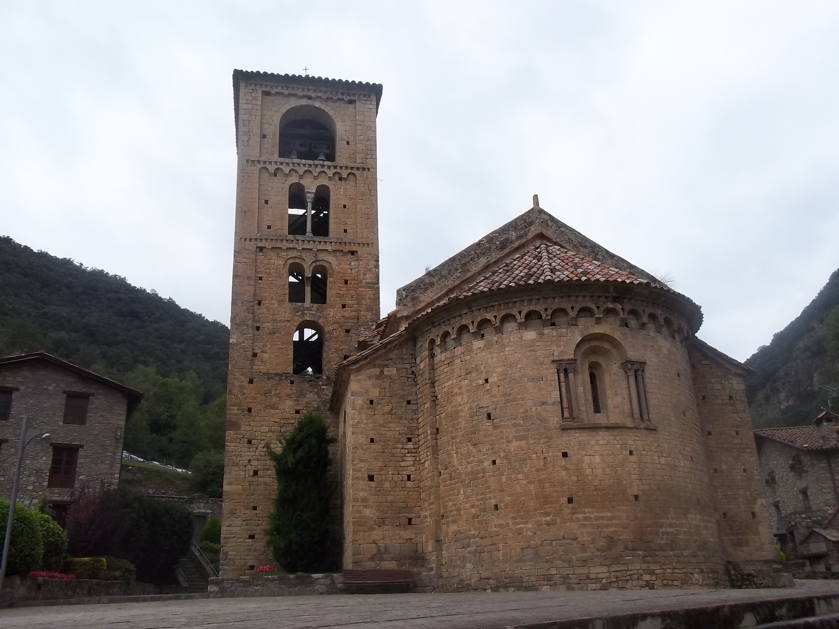 XII Century Church in the town of Beget, in Girona, Catalonia